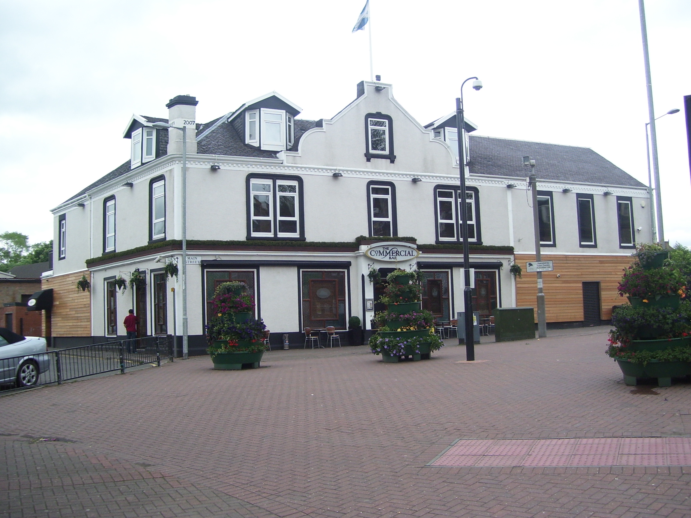 The Commercial Hotel